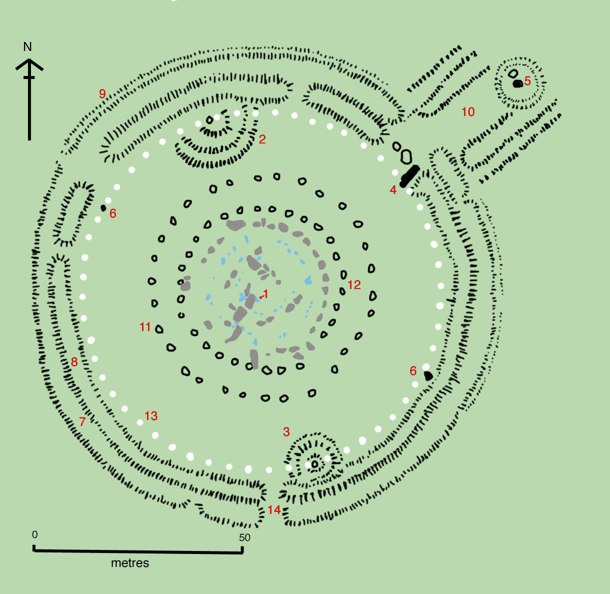 The site as of AD 2004. The plan omits the trilithon lintels for clarity. Holes that no longer, or never, contained stones are shown as open circles and stones visible today are shown coloured, grey for sarsen and blue for the imported stone, mainly bluestone. Key to plan: 1 = The Altar Stone, a six ton monolith of green micaceous sandstone from Wales 2 = barrow without a burial 3 = "Barrows" (without burials) 4 = The fallen Slaughter Stone, 4.9 metres long 5 = The Heel Stone 6 = Two of originally four Station Stones 7 = Ditch 8 = Inner bank 9 = Outer bank 10 = The Avenue, a parallel pair of ditches and banks leading 3 km to the River Avon 11 = Ring of 30 pits called the Y Holes 12 = Ring of 29 pits called the Z Holes 13 = Circle of 56 pits, known as the Aubrey holes 14 = Smaller southern entrance